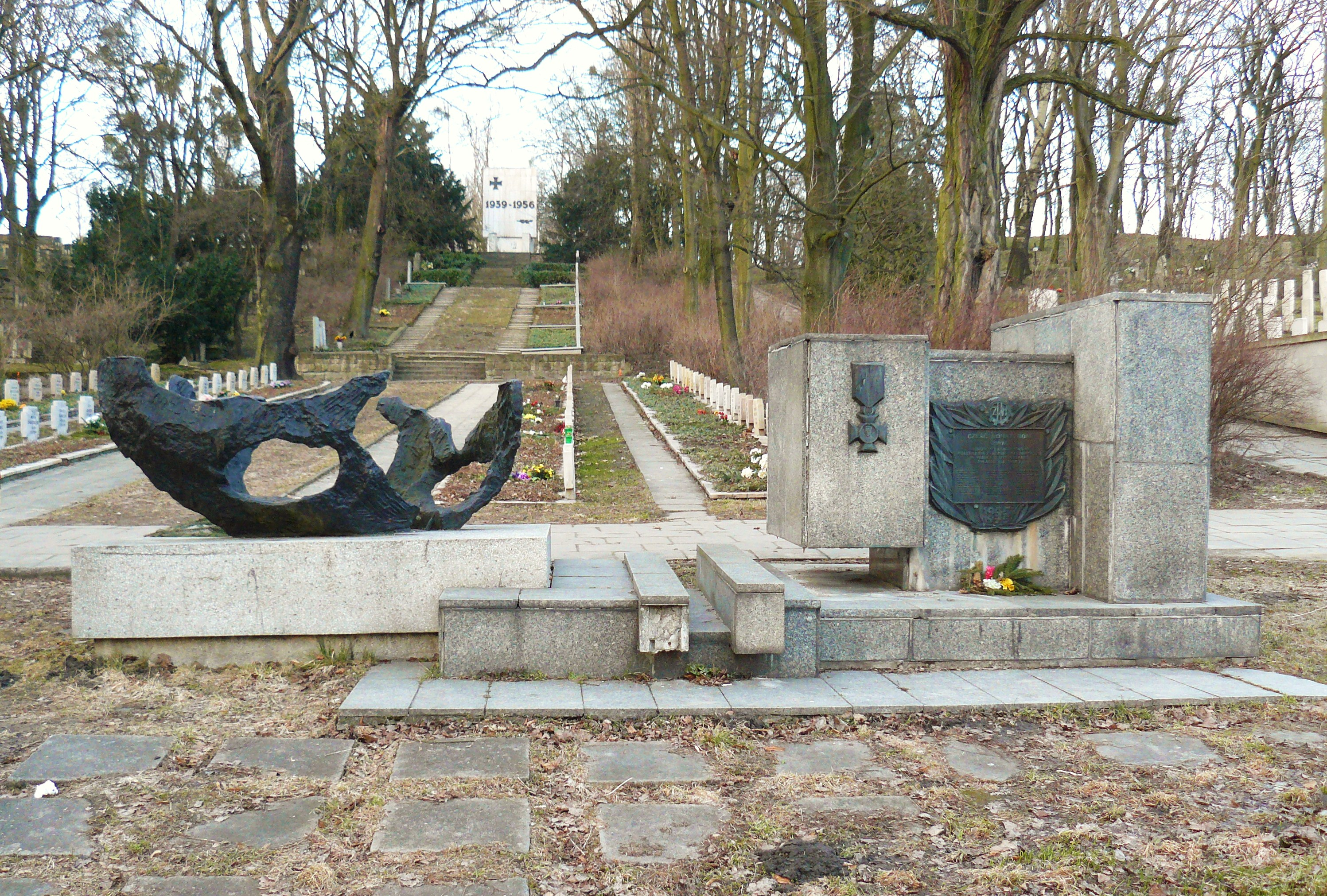 ZWM Monument - Poznan.